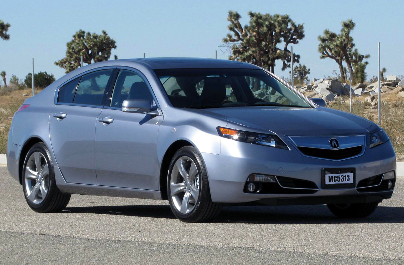 2012 Acura TL photographed in USA.